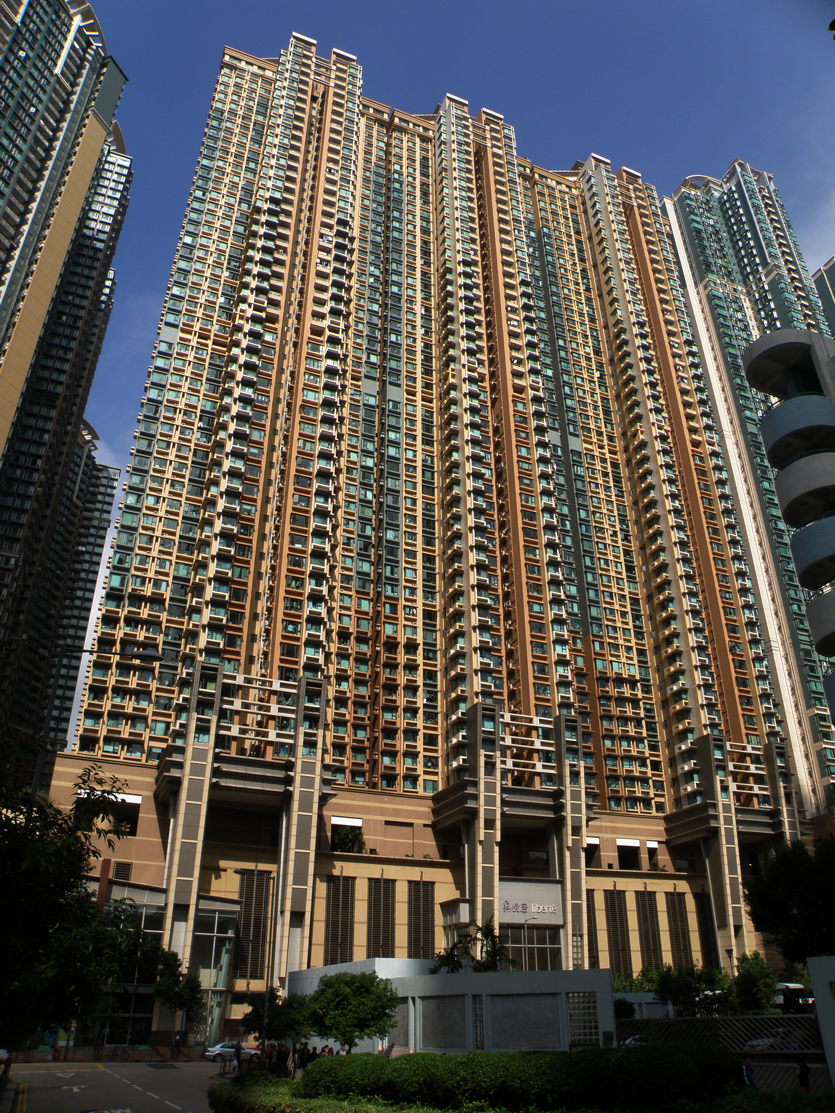 Liberté in Lai Chi Kok, Hong Kong.